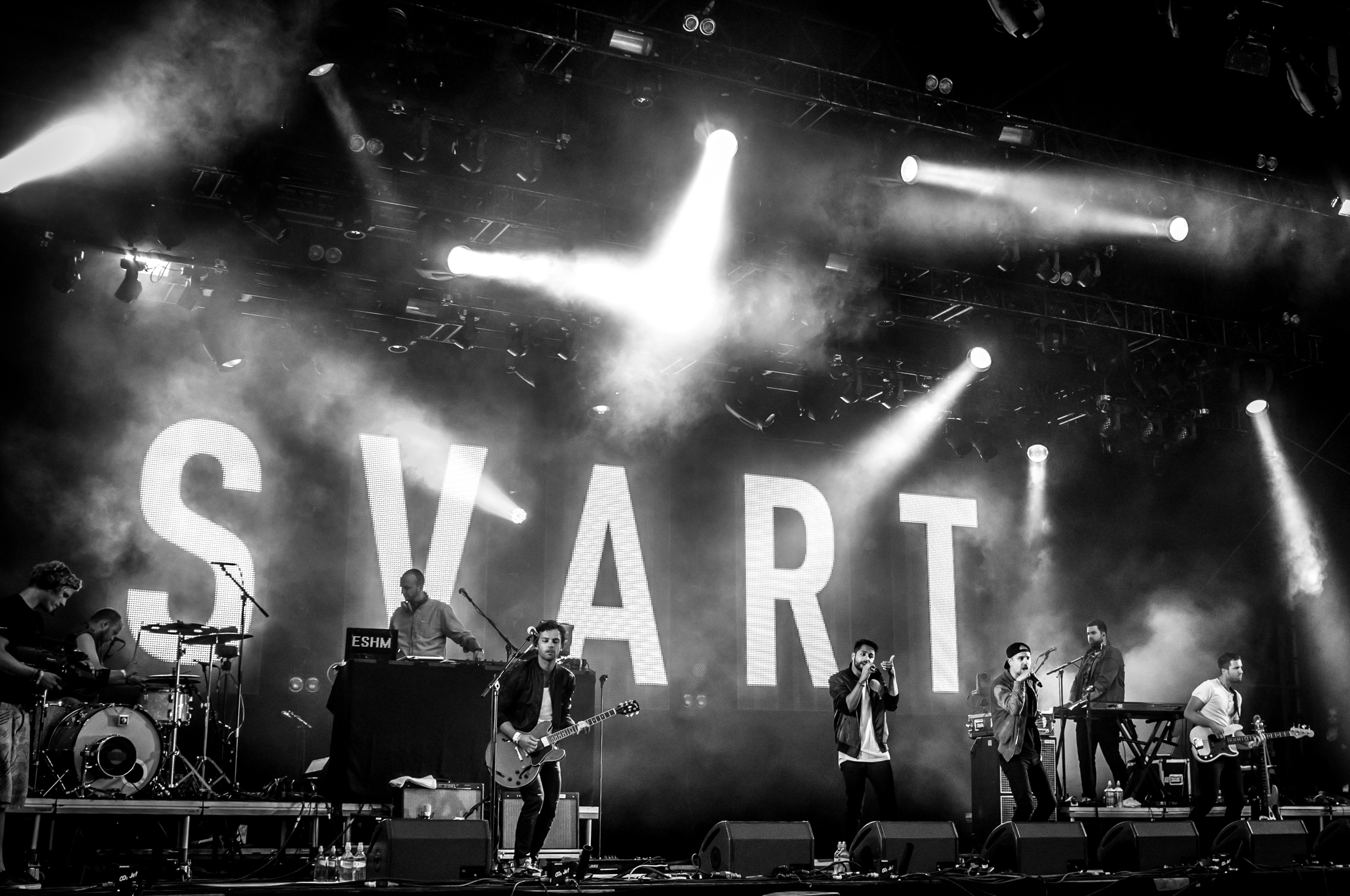 Karpe Diem på Slottsfjell 2013